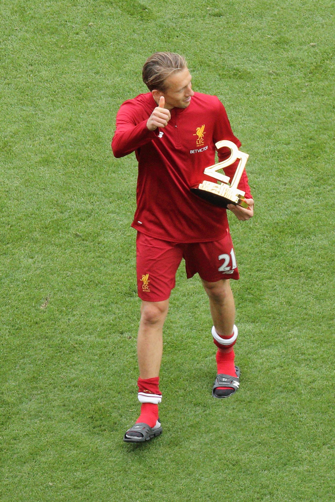 Lucas received a commemorative trophy to mark 10 years at the club